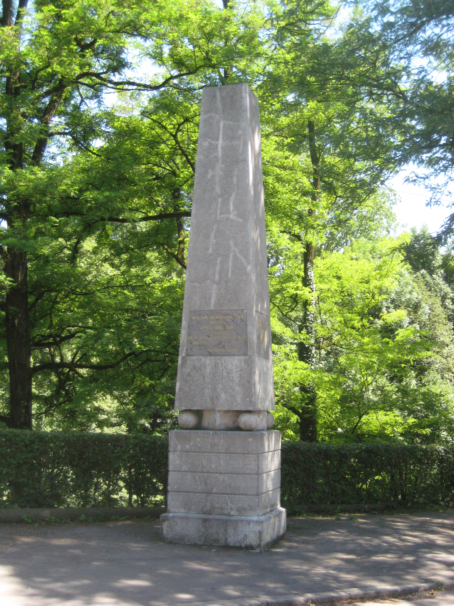 Monument - Gruber channel, Ljubljana. Erected in August 1829.